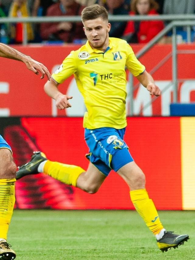 Danil Glebov with FC Rostov in a game against FC Krasnodar.